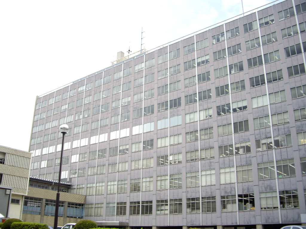 Matsudo city office